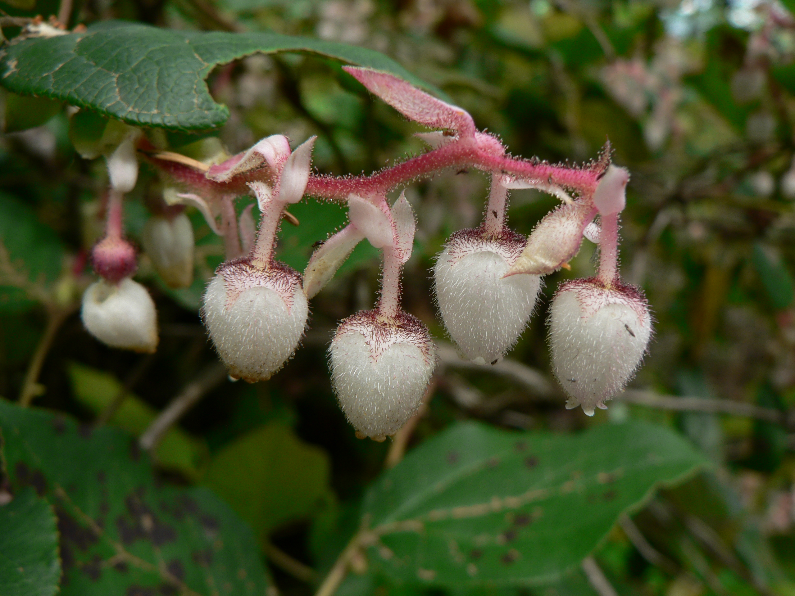 Salal flowers